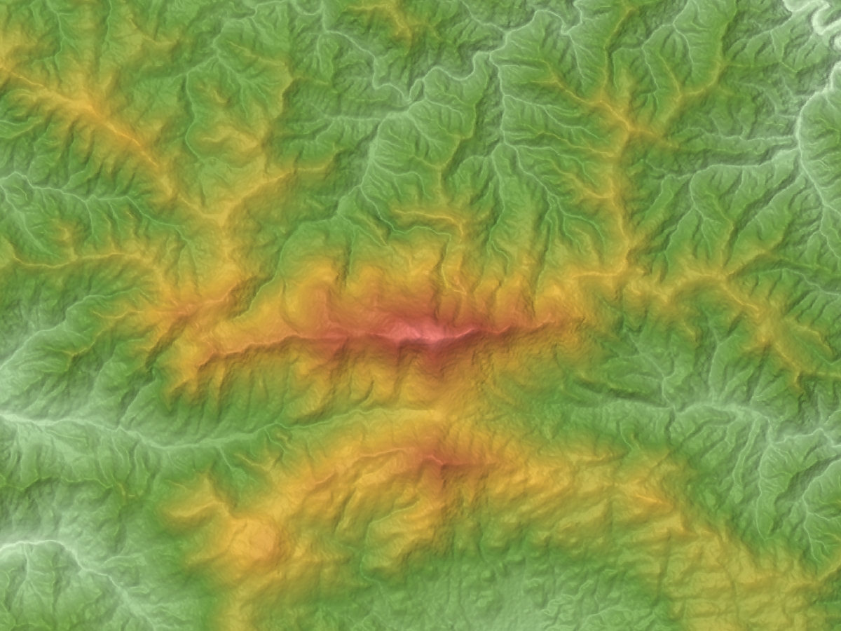 Mount Hayachine in Iwate Prefecture, Honshu, Japan.